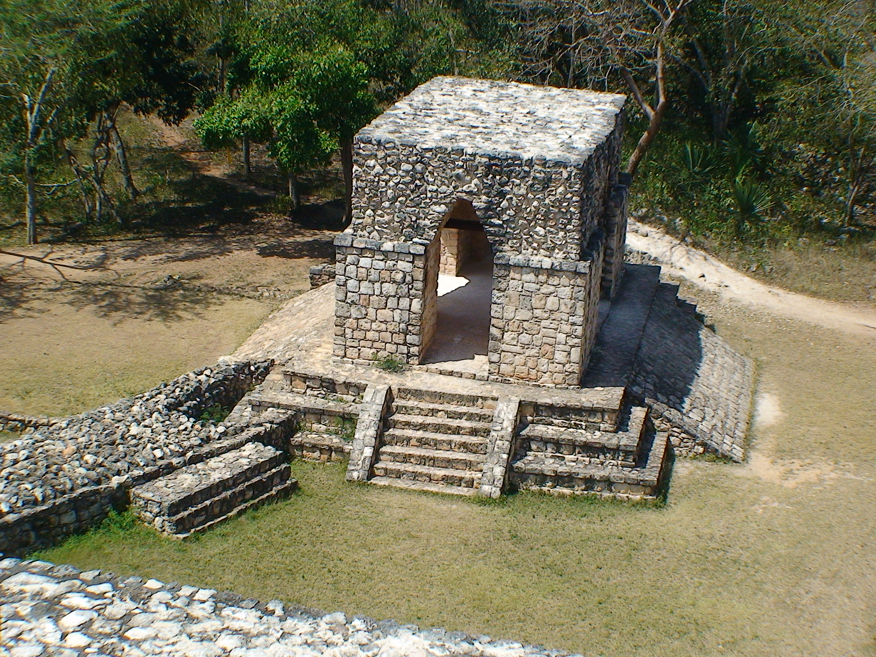 Ek Balam,Yucatan, Mexico: Structure 18 (reconstructed)